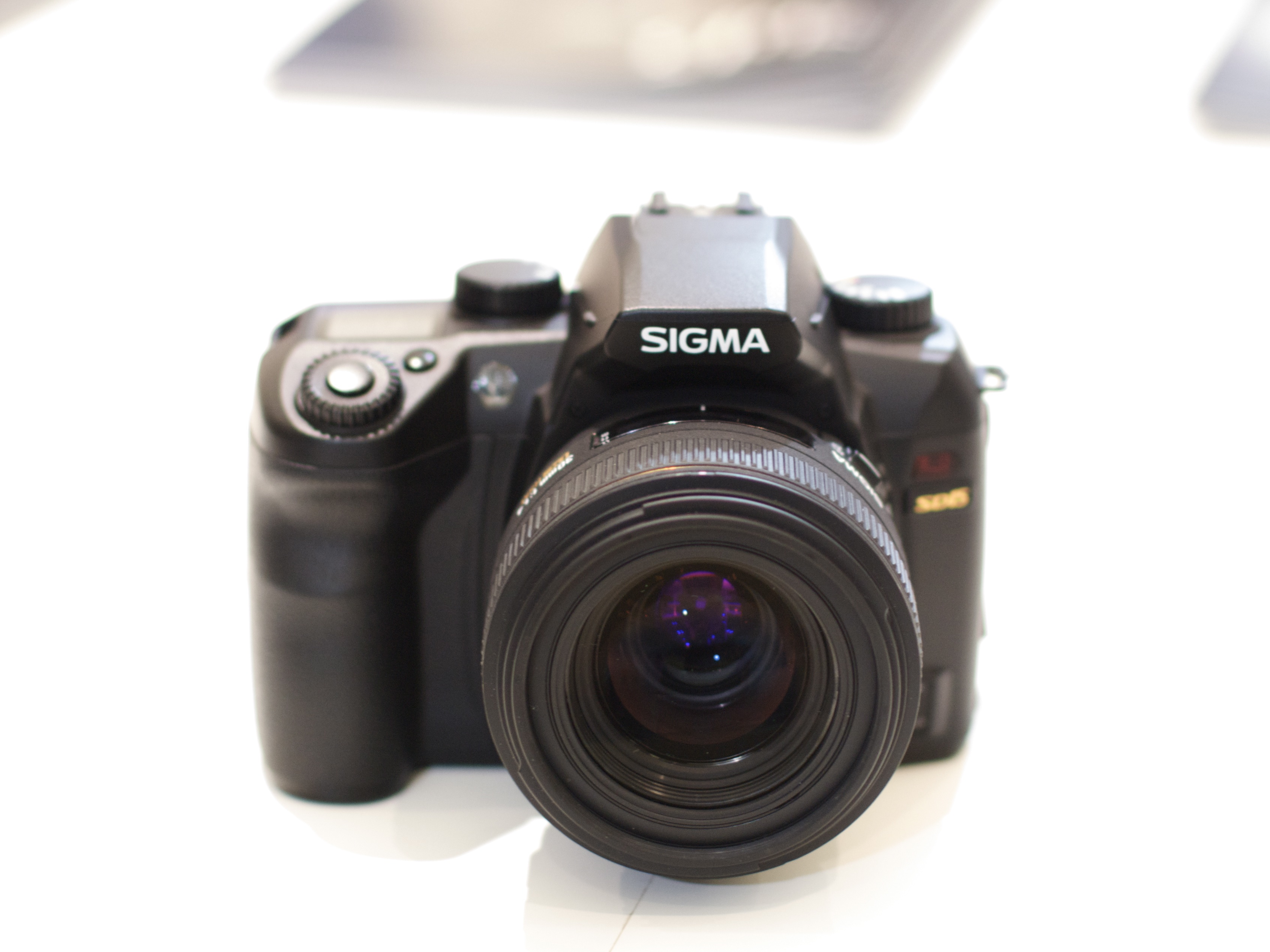 Sigma SD15 DSLR camera